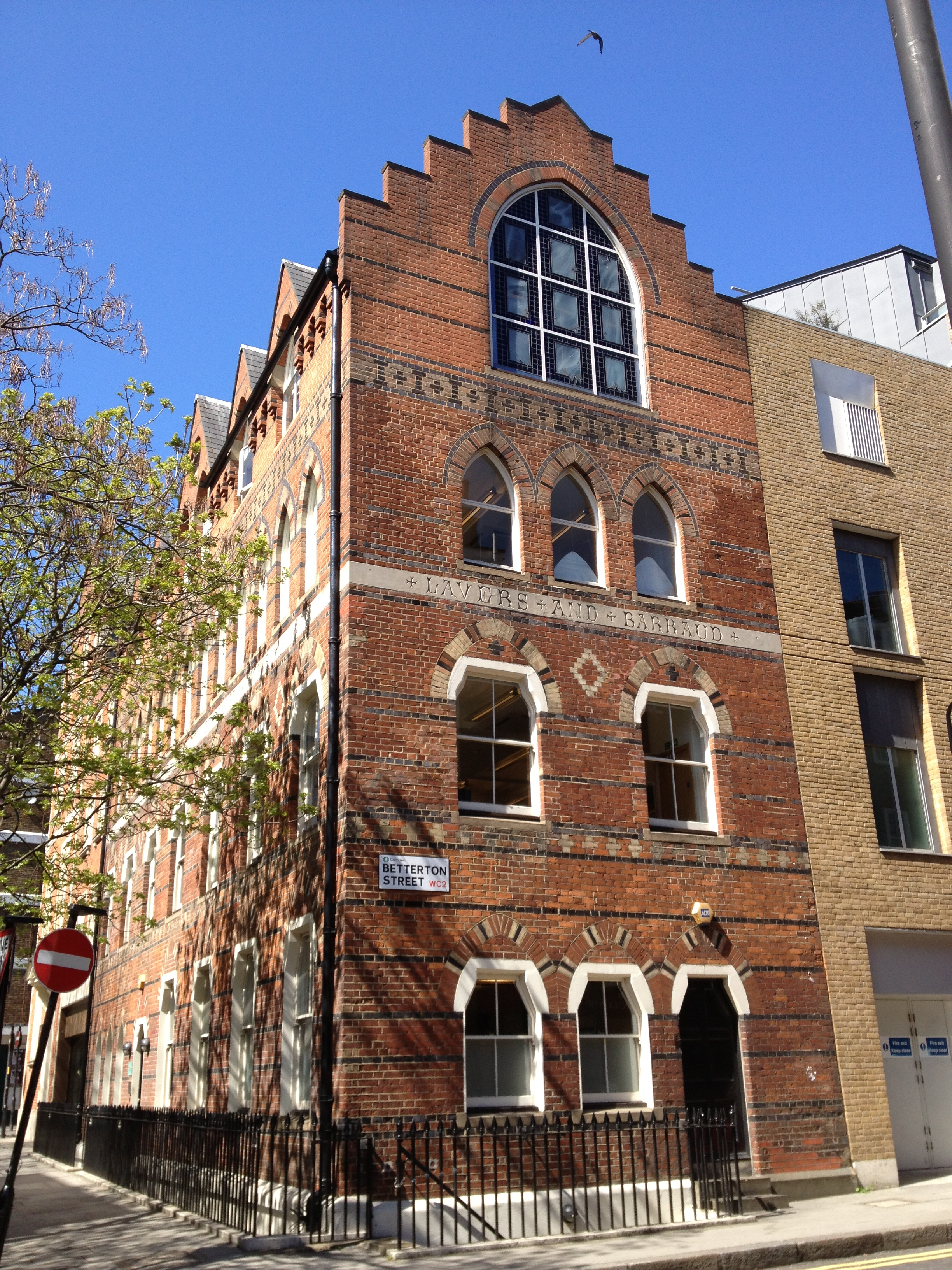 Premises of Lavers and Barraud on the corner of Endell Street and Betterton Street, Covent Garden, London WC2, photographed on 1 May 2013.